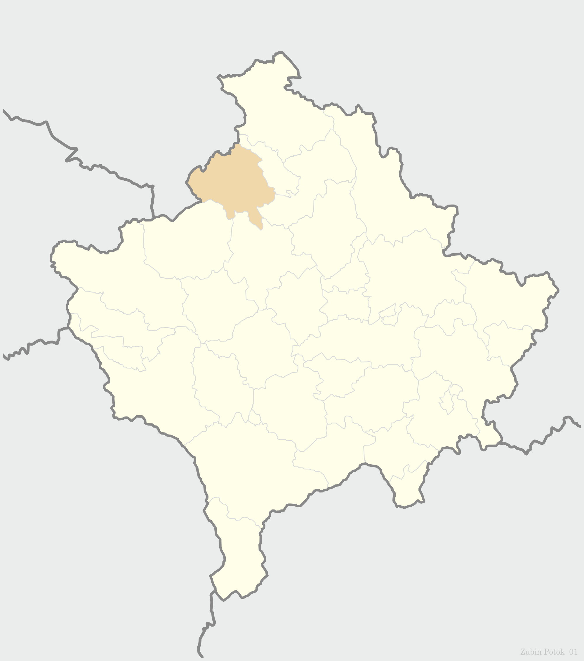 Municipality of Zubin Potok map